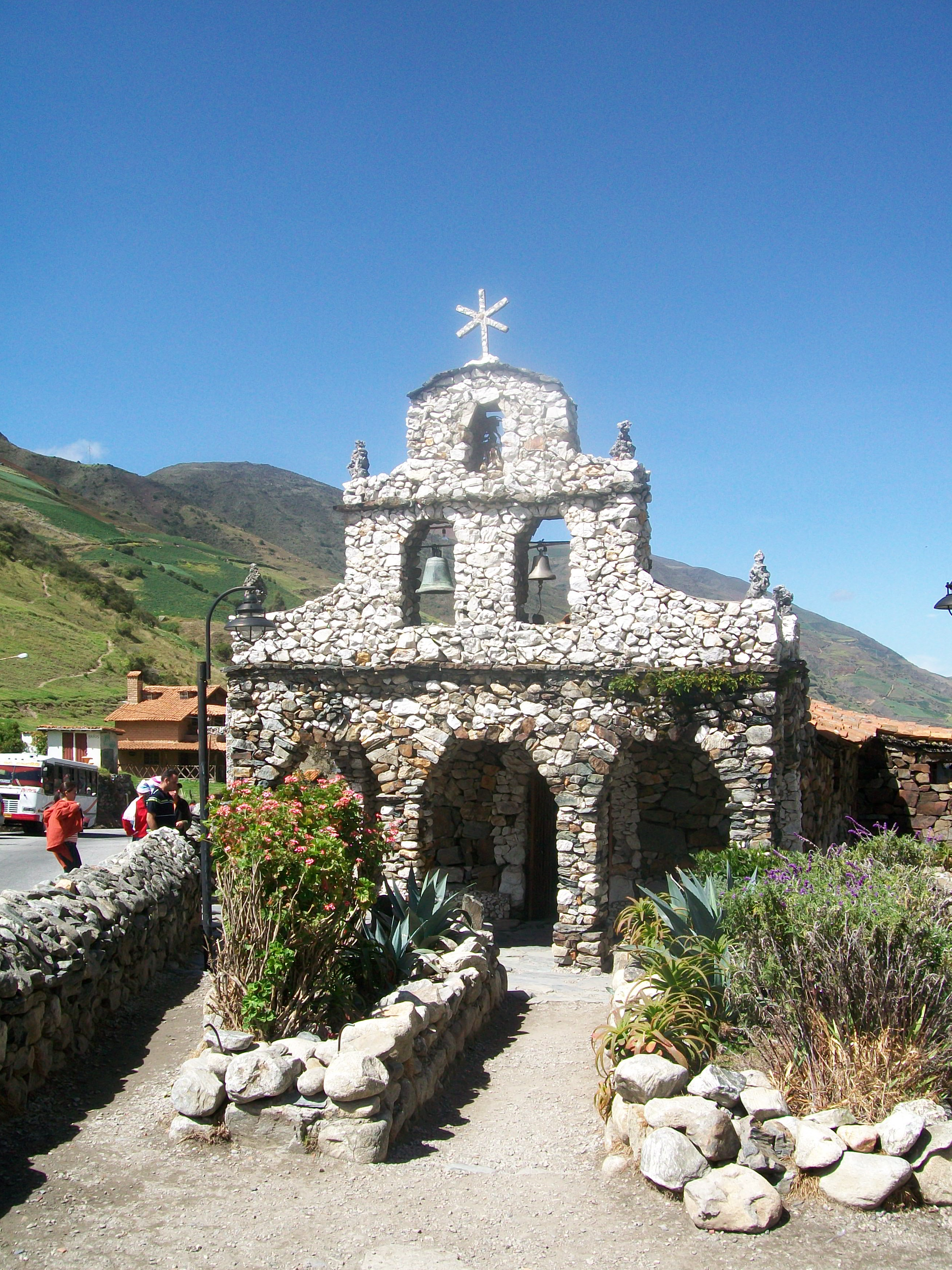 Stone church in San Rafael de Mucuchíes at abt 10000 feet above sea level on the hills of the Cordillera de Mérida, Venezuela, built by Juan Félix Sánchez.